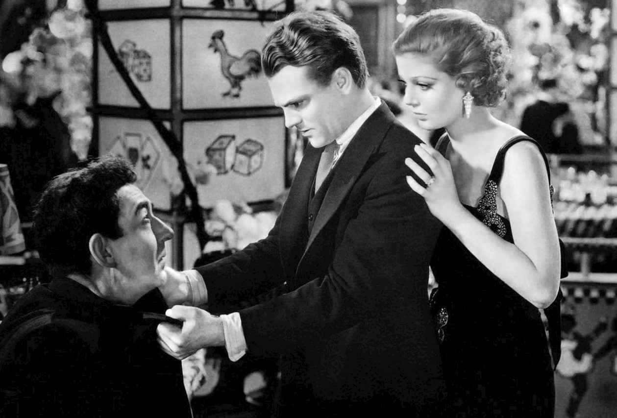 Scene from the American pre-Code film Taxi! (1932) with David Landau, James Cagney, and Loretta Young. The still is derived from this PD item: .